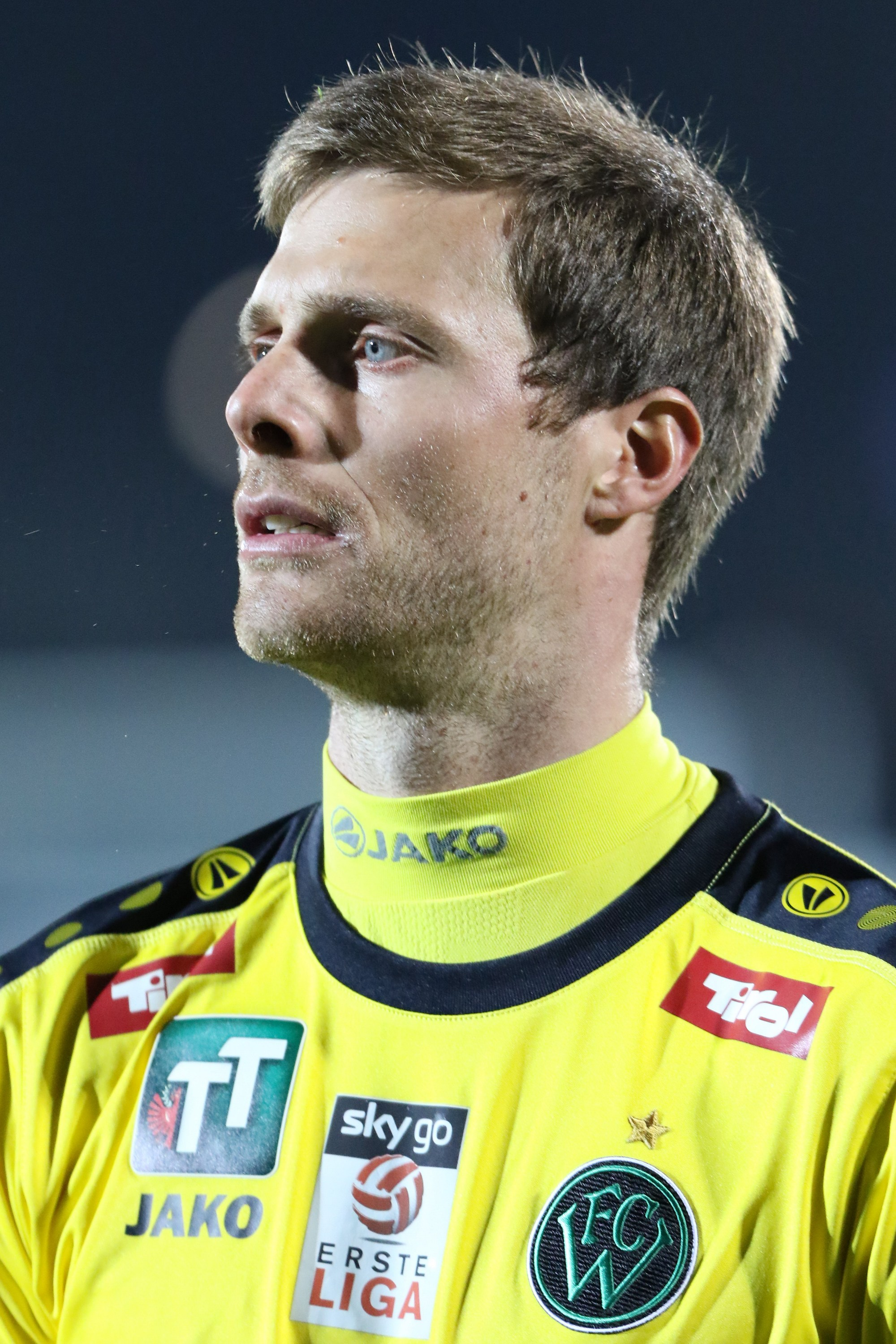 Match of the Erste Liga – SC Wiener Neustadt (blue/white shirts) vs. FC Wacker Innsbruck (green/black shirts) 0–2 (0–1) on 2016-04-11 in the Stadion in Wiener Neustadt – The photo shows Pascal Grünwald (goalkeeper of FC Wacker Innsbruck).